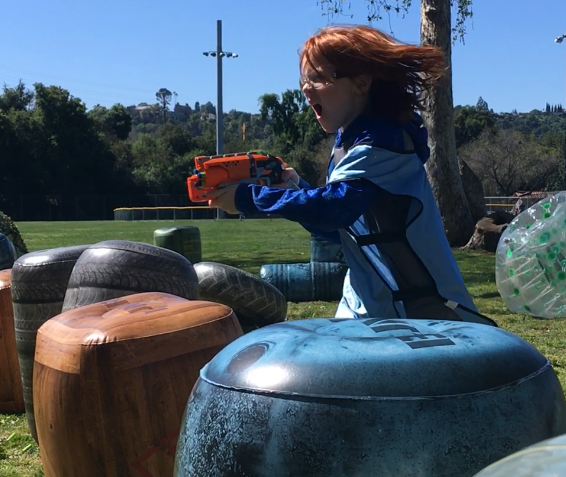 Nerf Battle in Los Angeles